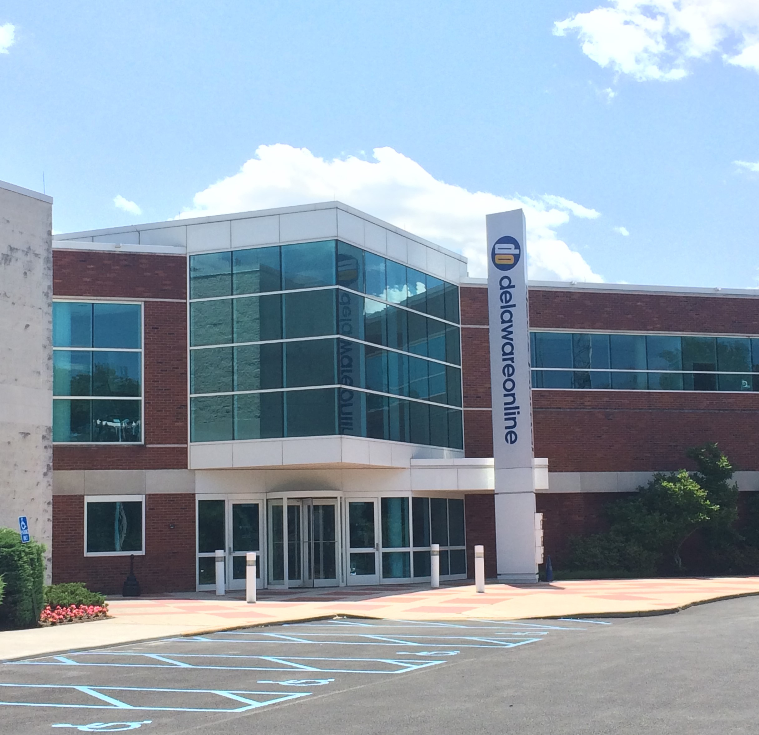 The News Journal building in New Castle, Delaware